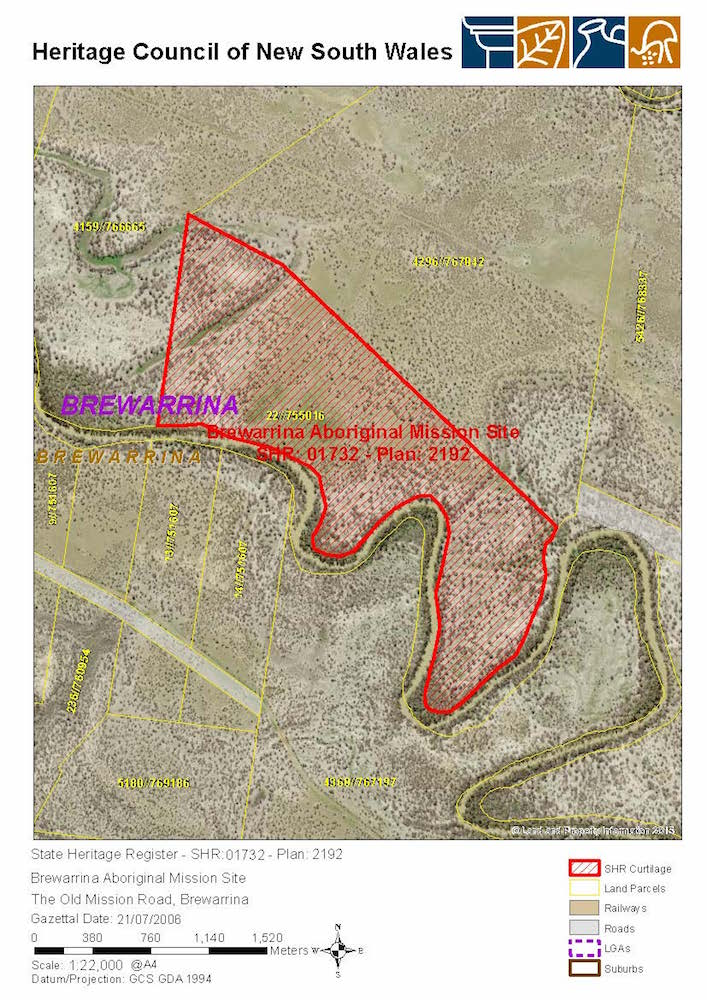 Brewarrina Aboriginal Mission Site: SHR Plan 1964